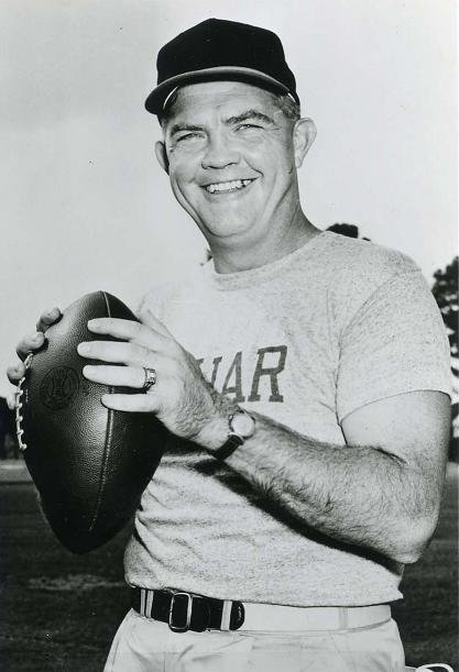 Hal Lahar as the head coach of the Houston Cougars football team from 1957–1961.